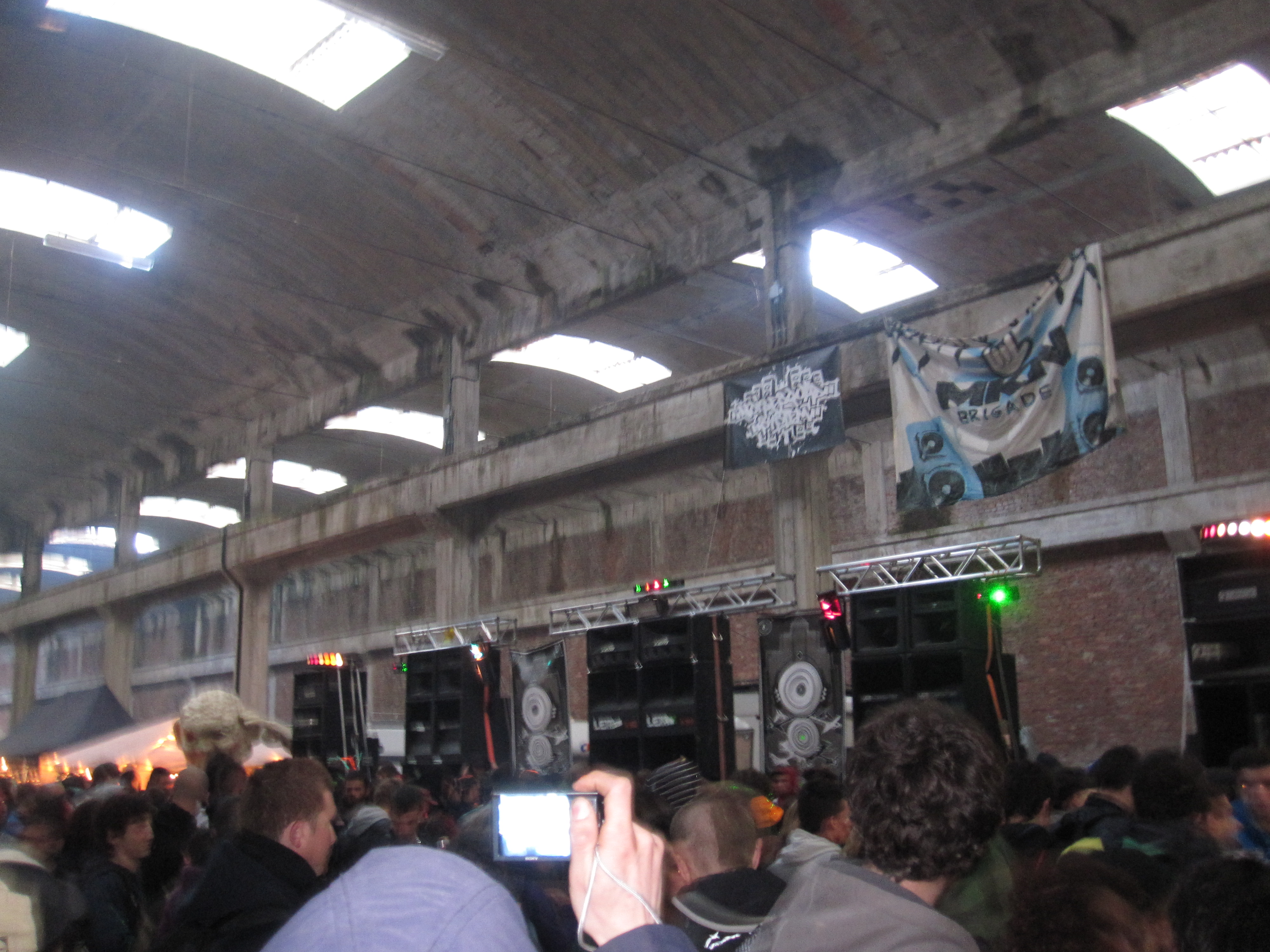 Easter free party